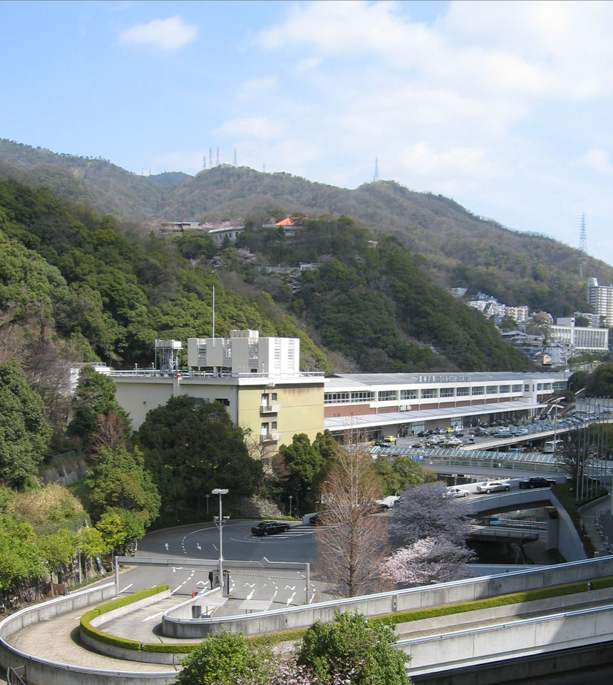 Shin-Kobe Station in Kobe, Japan